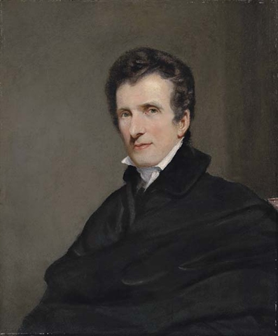 Portrait of Antonio Canova (1757–1822), Oil on Canvas, 127.5 x 101.5 cm.